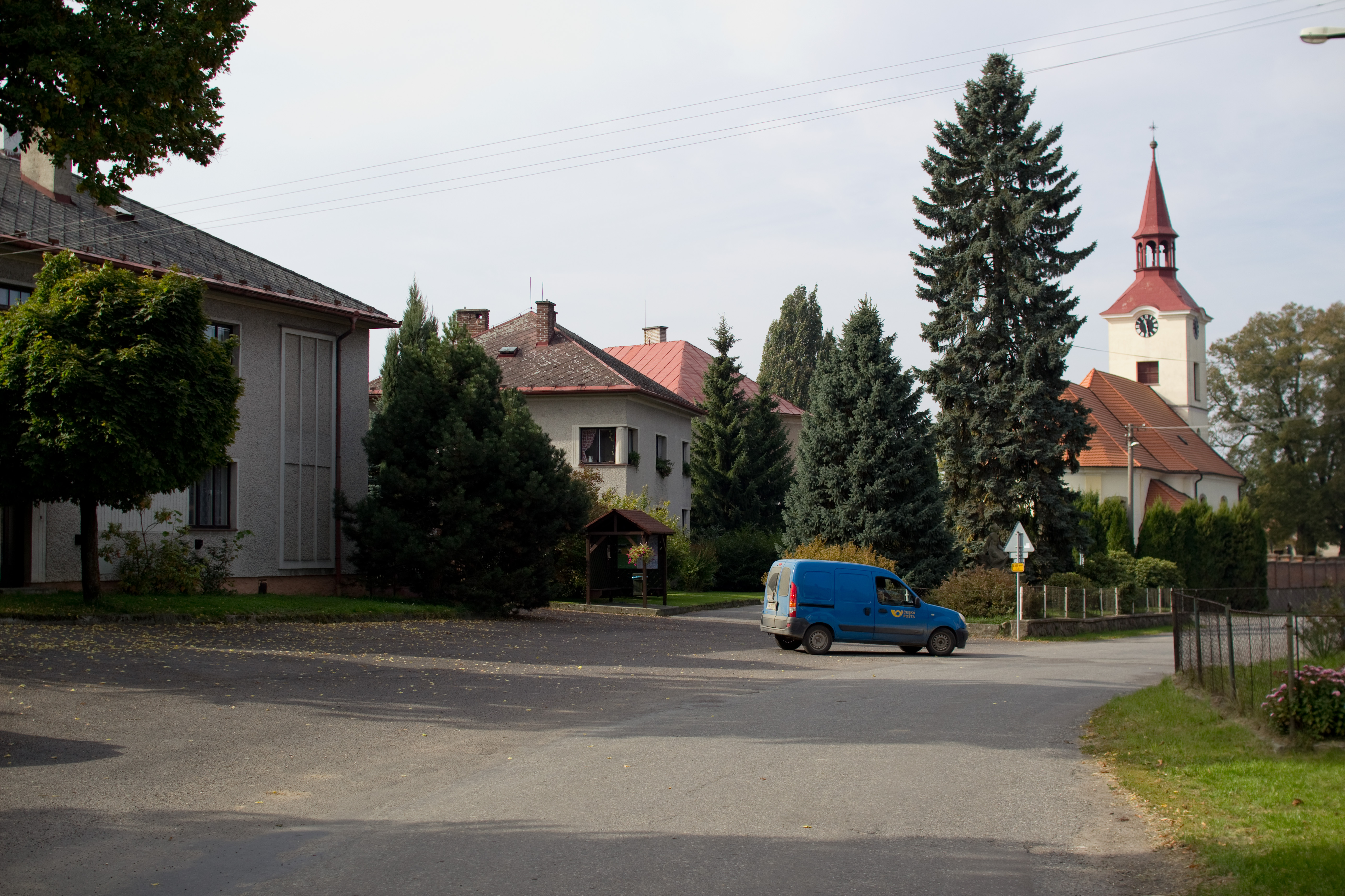 Village square, Chleny, Rychnov nad Kněžnou District, Hradec Králové Region